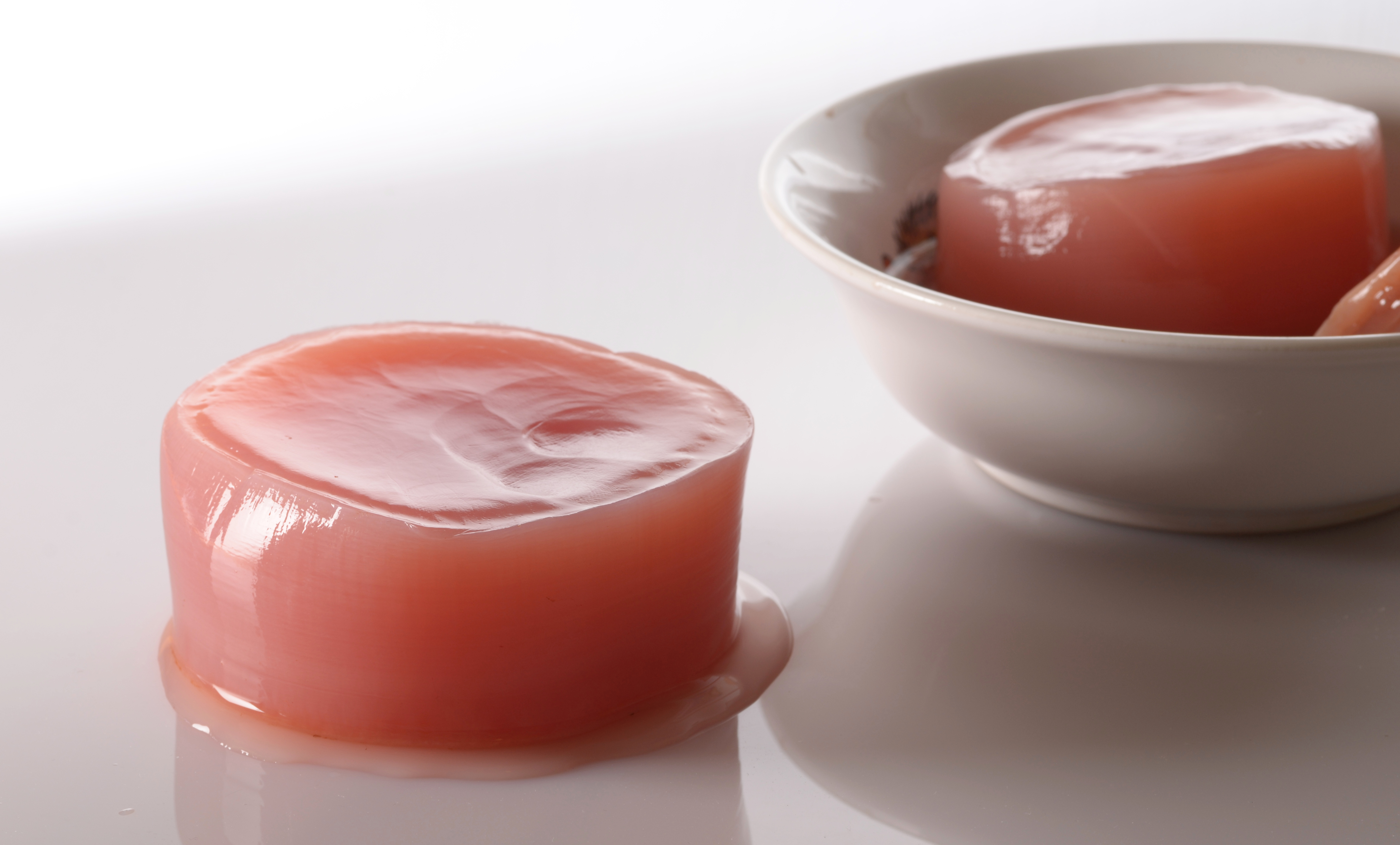 A Kombucha mushroom. The colorization is due to using fruit tea. Pure tea would result in a brown mushroom.